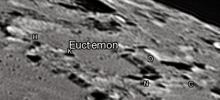 Euctemon lunar crater as seen from Earth with satellite craters labeled